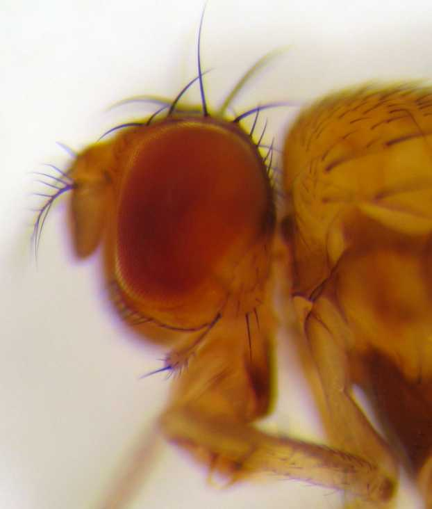 Head of Drosophila residua. Photo taken by Karl Magnacca.